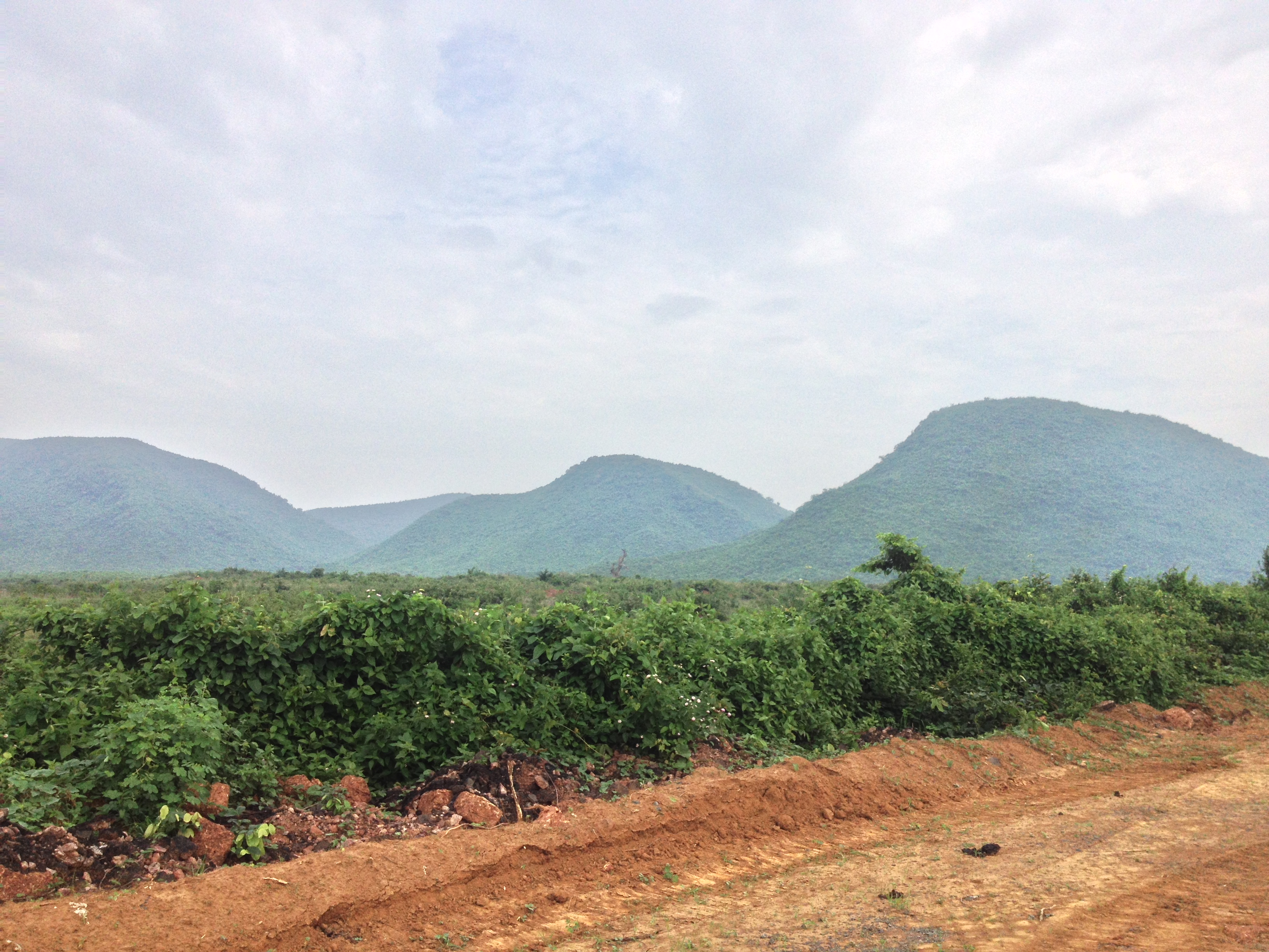 Saptasajya Hills (North view)